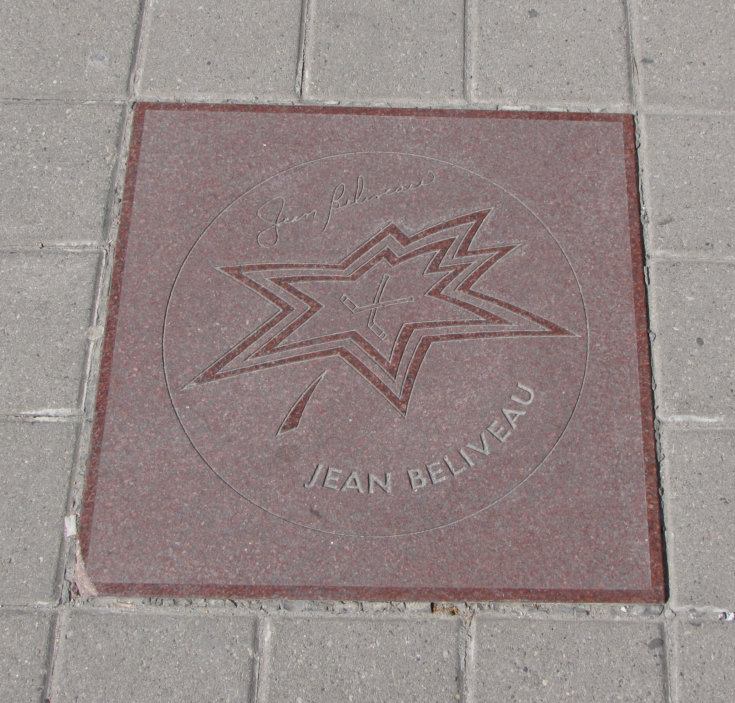 Jean Beliveau's star on Canada's Walk of Fame